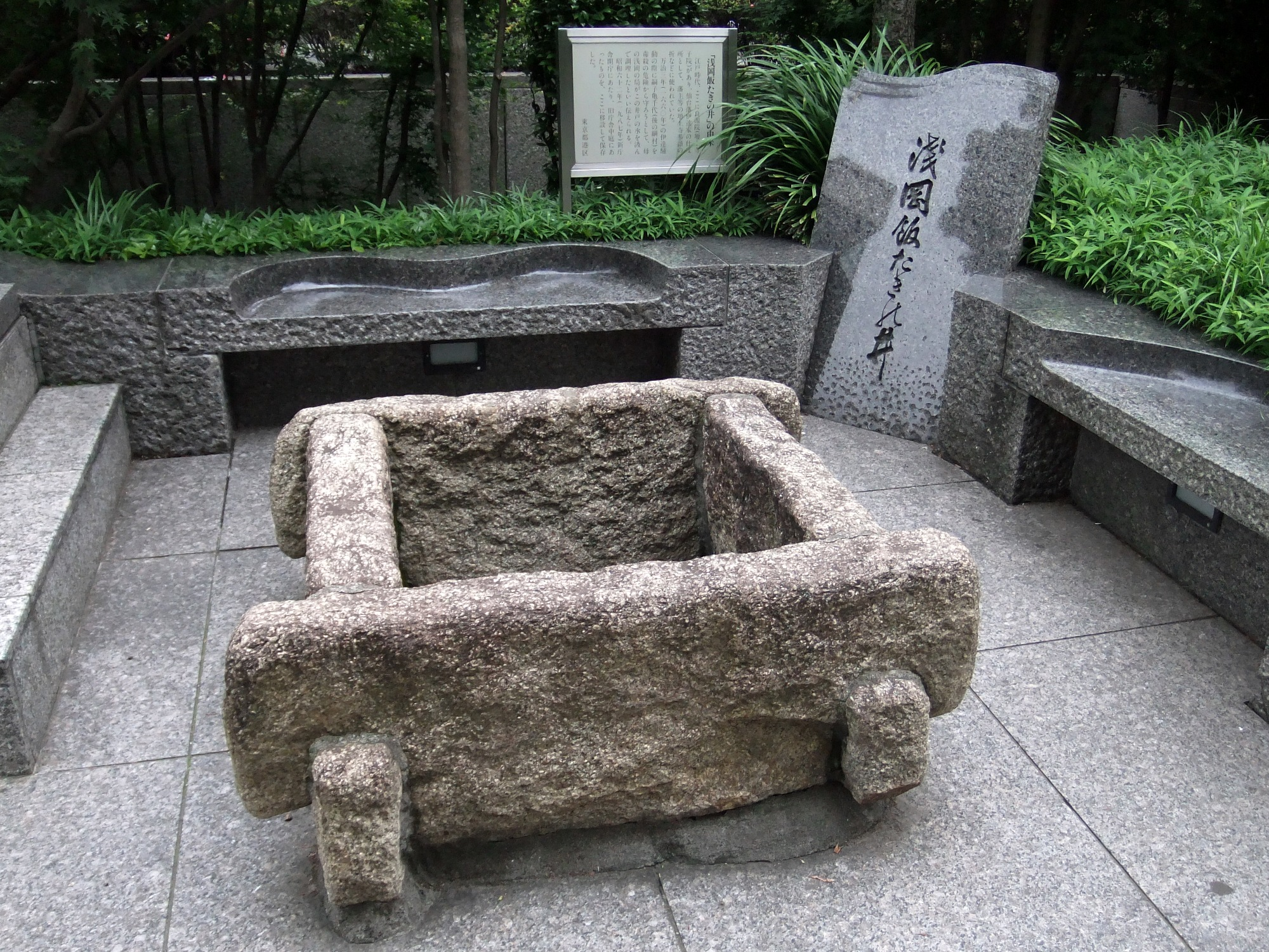 Remains of the Water well called "Asaoka Mamataki no Ido "